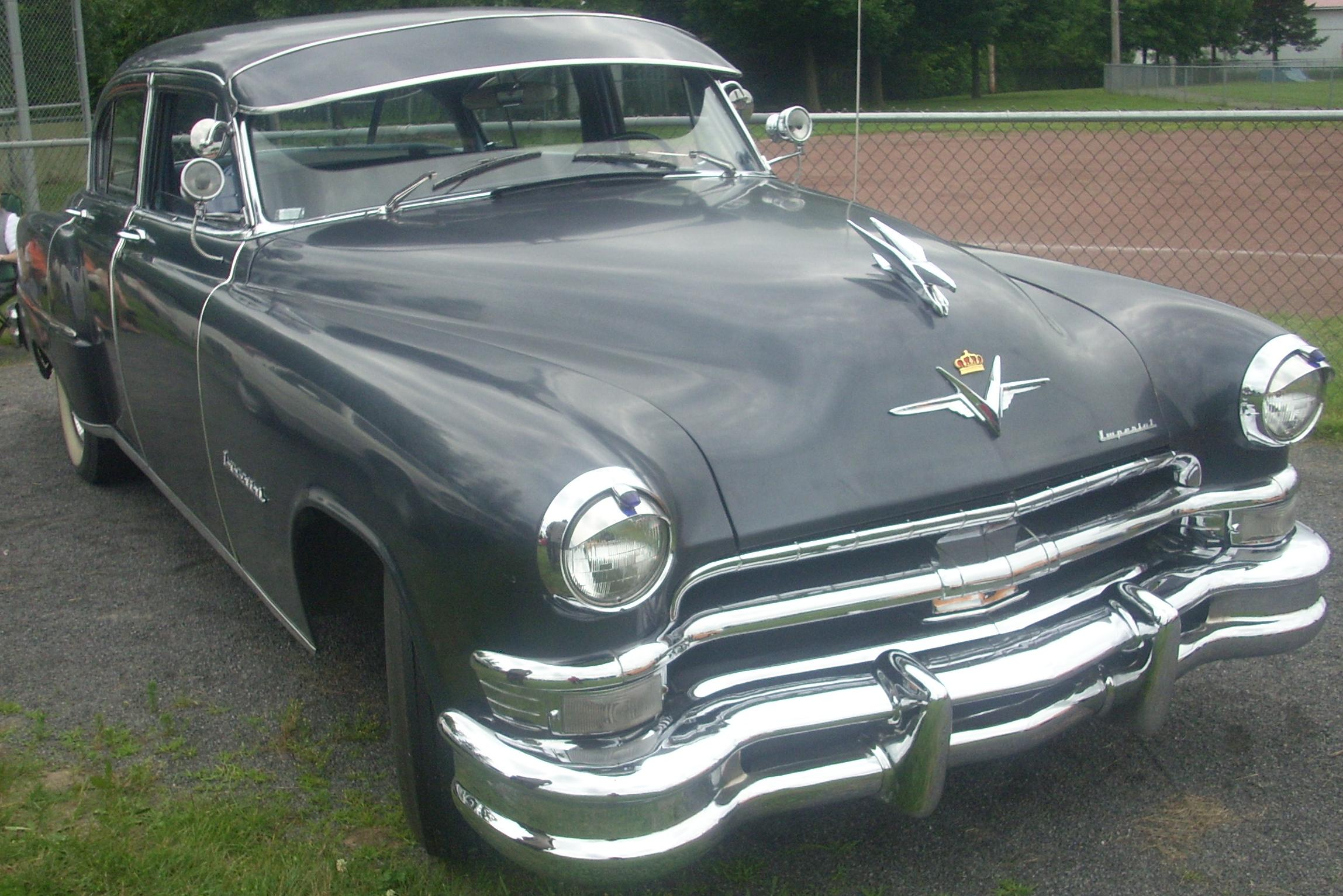 Imperial photographed in St. Lazare, Quebec, Canada at the 2010 St. Jean Baptiste Classic Car Show.